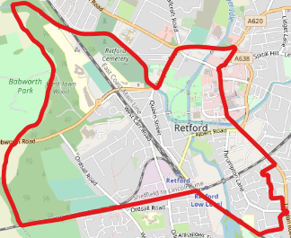 Map of the East Retford West ward of Bassetlaw. This map may be incomplete, and may contain errors. Don't rely solely on it for navigation.